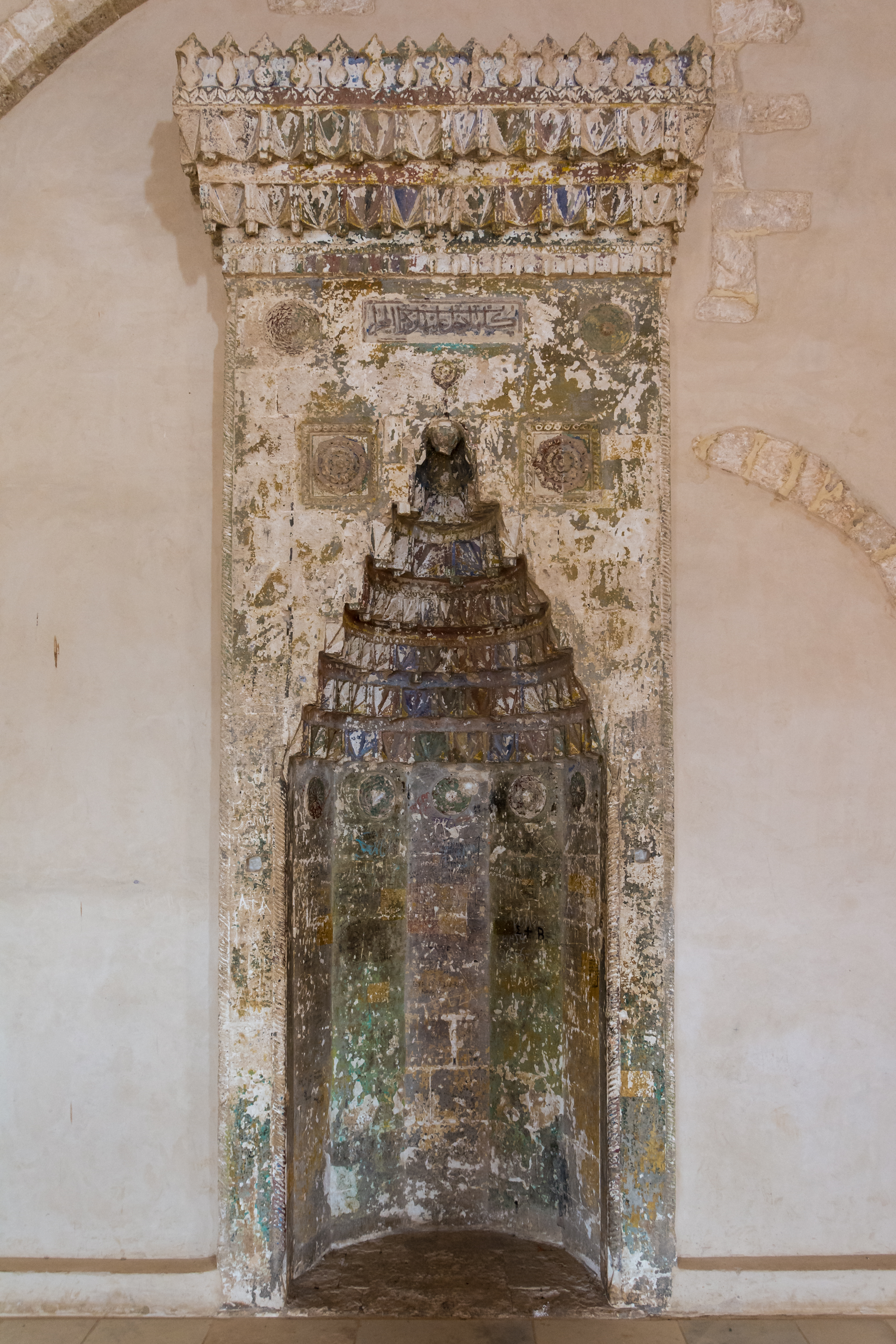 Mihrab of Sultan Ibrahim Mosque in the Fortezza of Rethymno, Crete